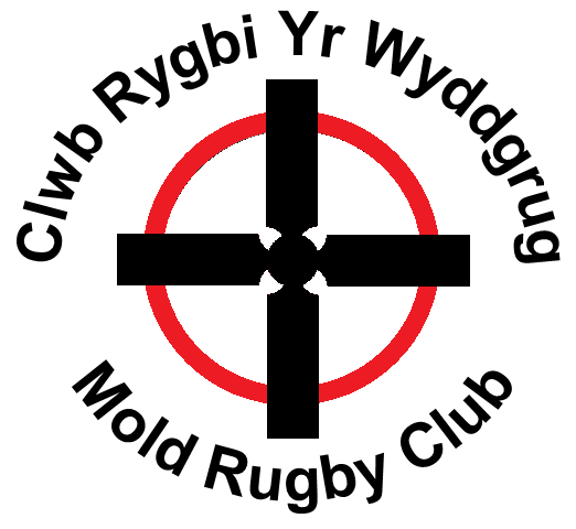 The original and official logo of Mold RFC